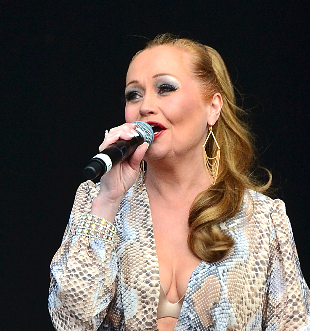 Sonia Evans at Lets Rock Bristol 2014.